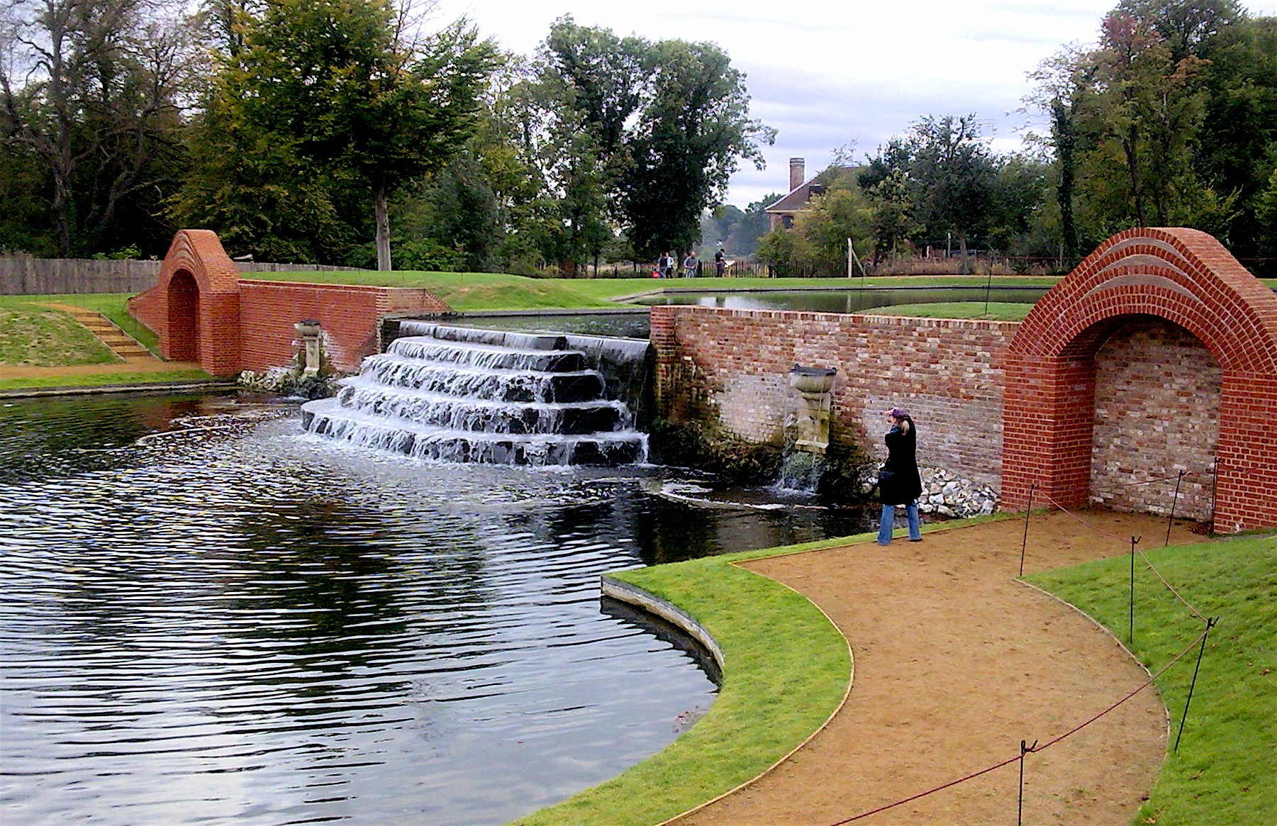 The Upper Lodge Water Gardens in Bushy Park were restored and largely reconstructed with the help of the Lottery Heritage Fund. The Gardens first opened on 2nd October 2009 and this pic was taken two days later using my Nokia mobile camera.